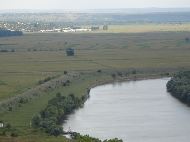 View of Nistru river near Speia